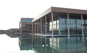 Infineon Technologies headquarters Campeon in Neubiberg/Munich